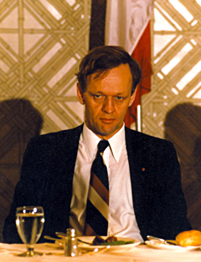 Jean Chrétien at a fundraising meeting for the Liberal Party at the Queen Elizabeth Hotel in Montréal, Québec.